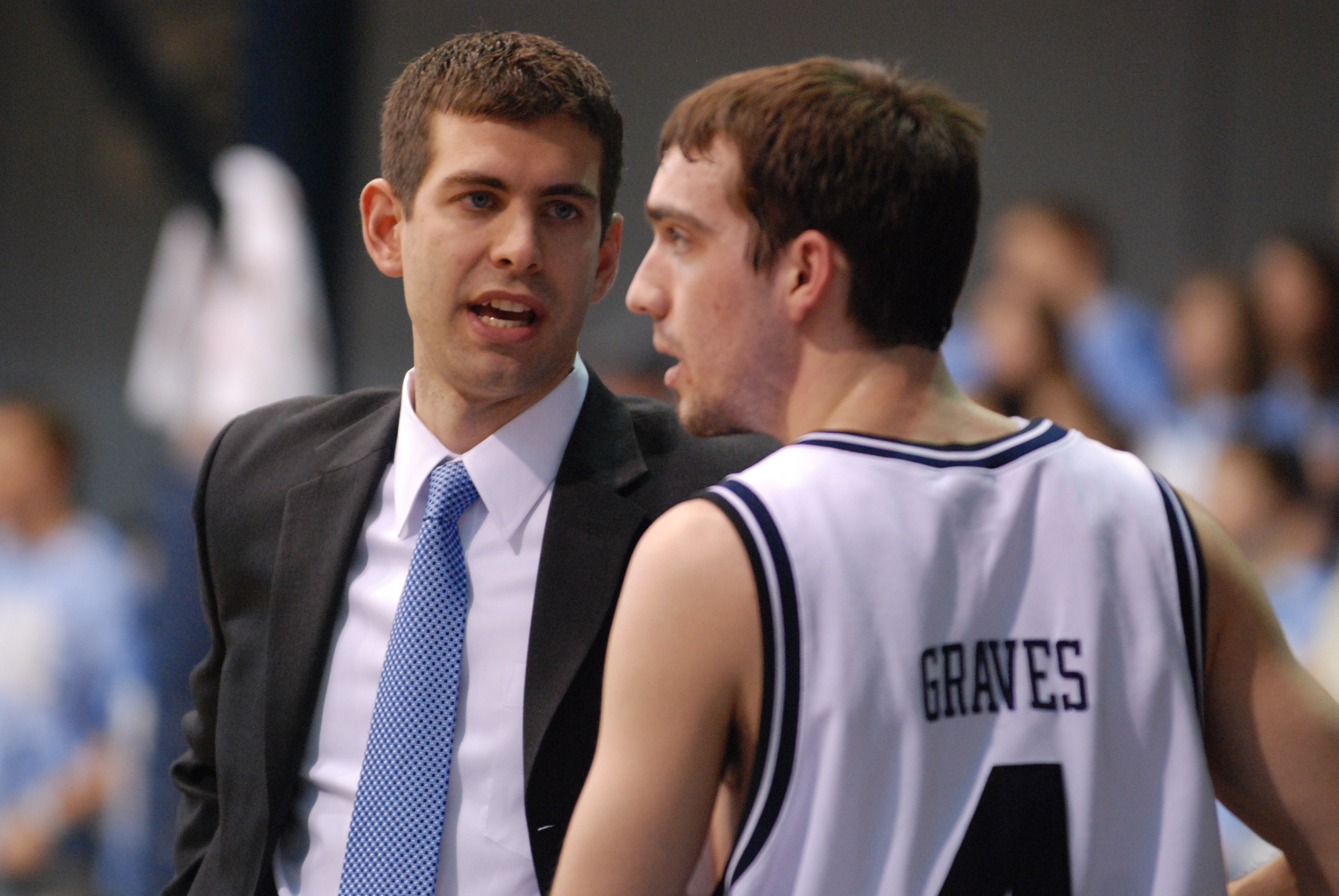 Coach Brad Stevens talks with player A. J. Graves. Taken at Hinkle Fieldhouse on the Butler University campus during Butler vs. Detroit game, 3/1/2008.